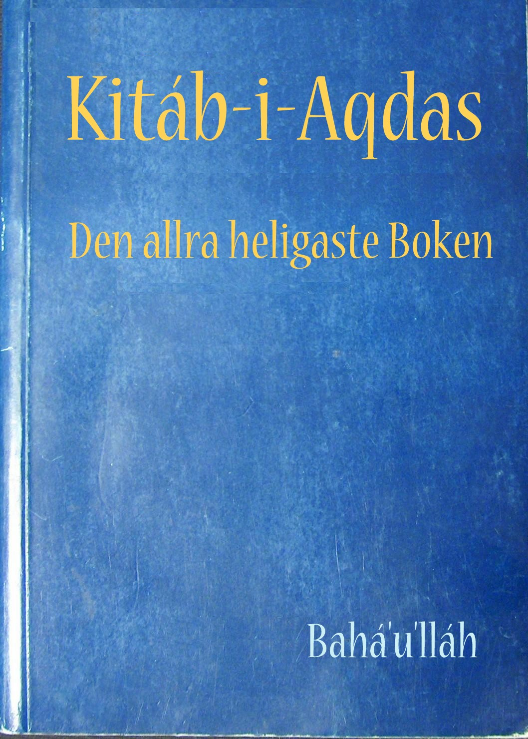 This book is considered the most important of the Baha'i faith. The Aqdas or Kitáb-i-Aqdas (The Most Holy Book, 1873) is, however, NOT translated into Swedish yet, and no layout for the front has been devised or developed. Therefore I have created a dummy cover, a pretended cover, with the intention to illustrate a wikipedia article about a book that eventually will be translated into Swedish. The appearance of the Aqdas in Swedish and its face is completely my own invention.